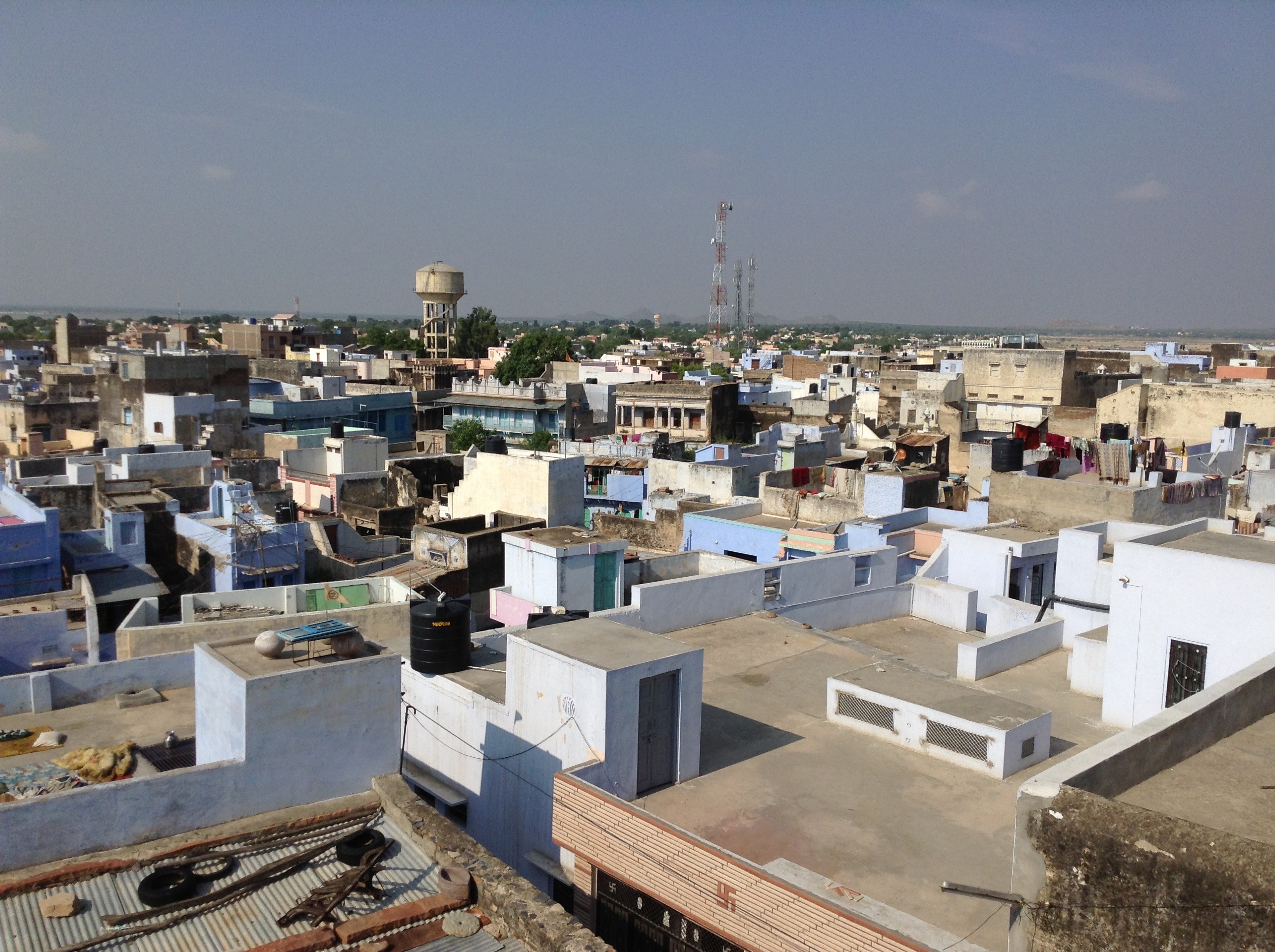 Didwana (24 July 2013)